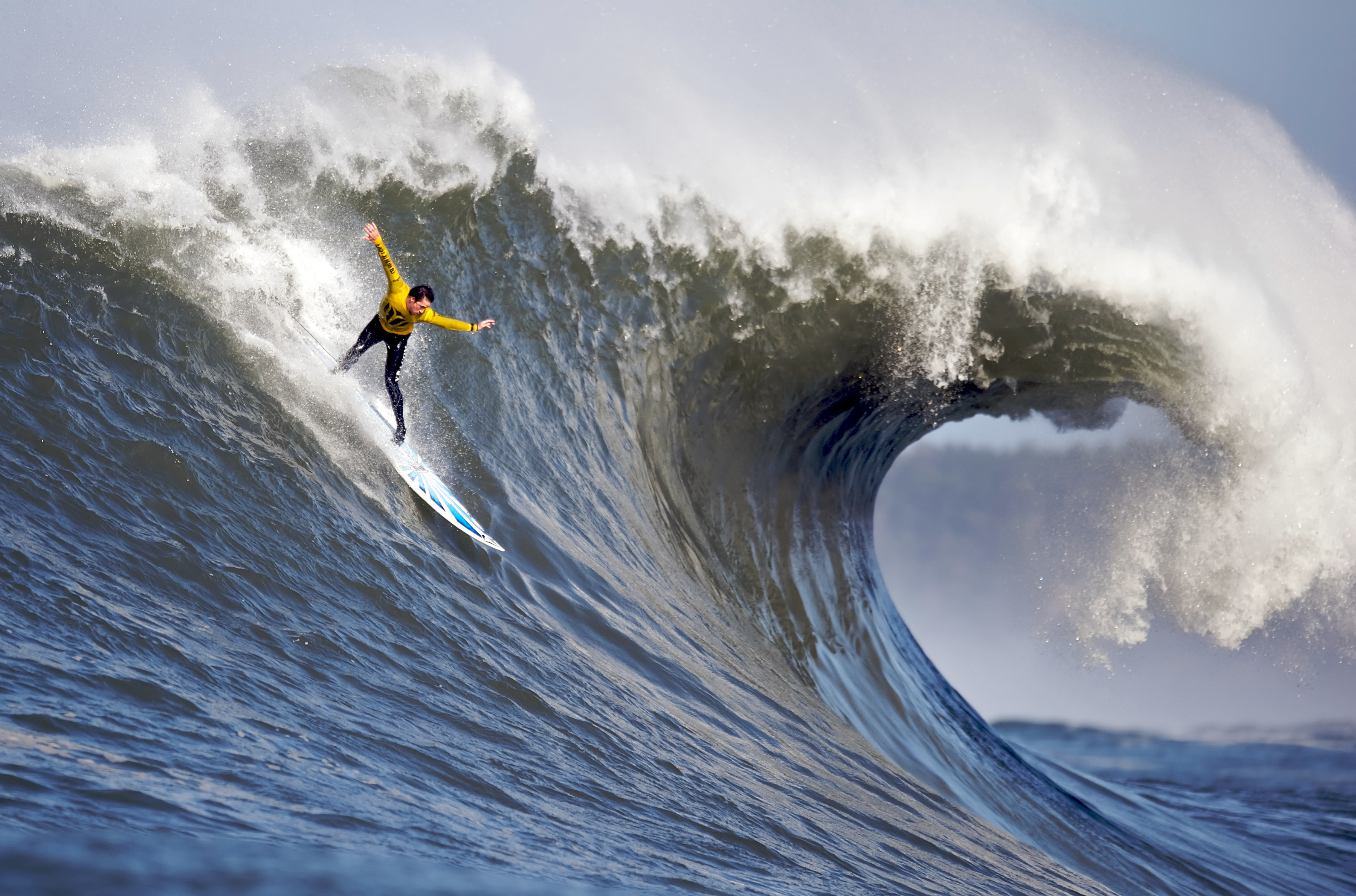 2010 Mavericks surfing competition. The image was taken from a boat. Here's Shalom's description of his experience: "The boat was very rocky. Many people got sea sick though. One guy (photog) never even got any pictures he was so sick."